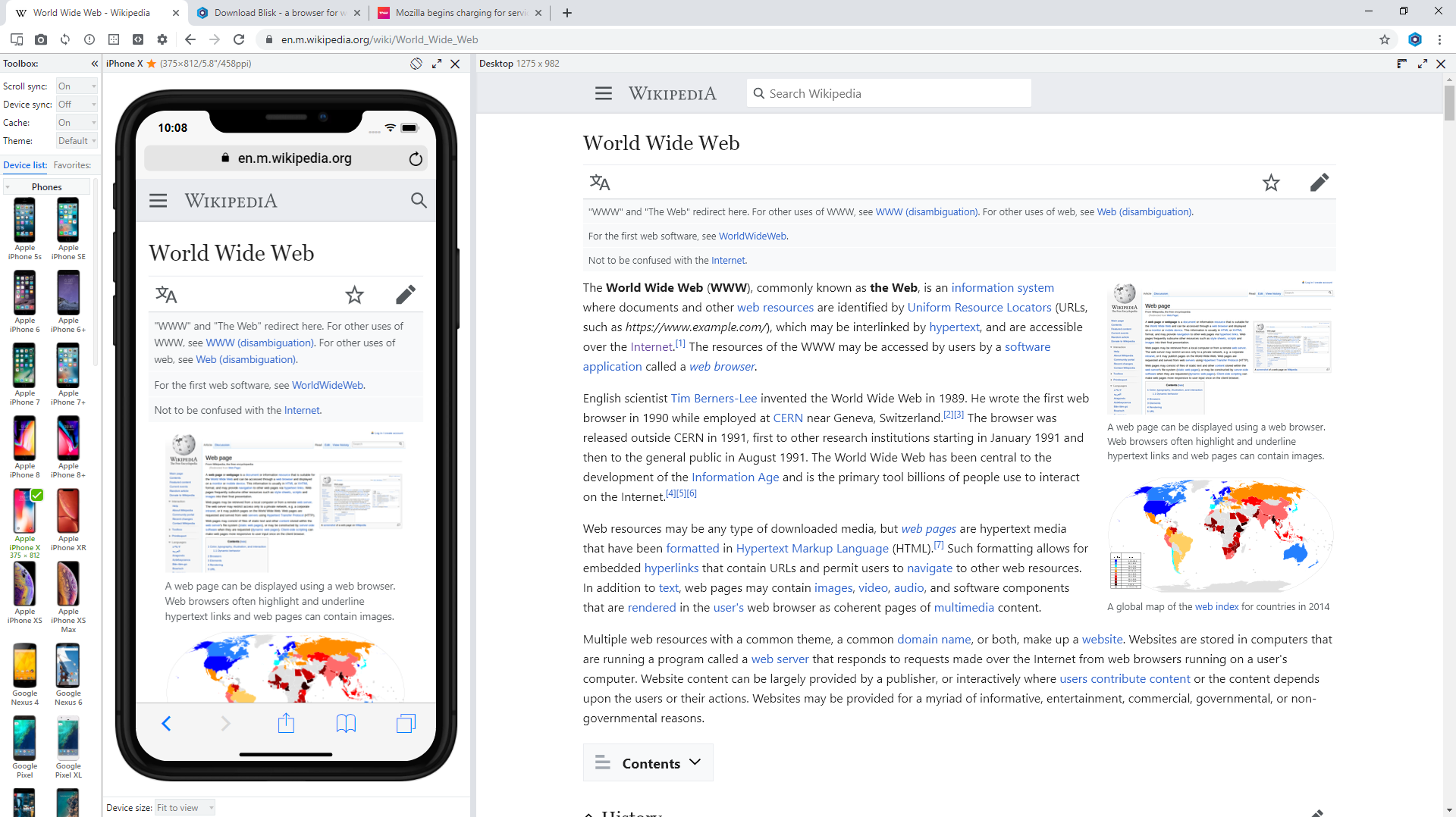 Blisk browser preview (version 13 beta) with selected iPhone X